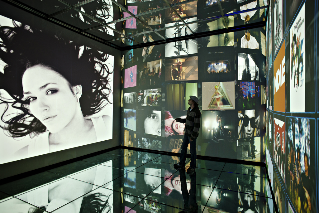 Rockheim - exhibitions.